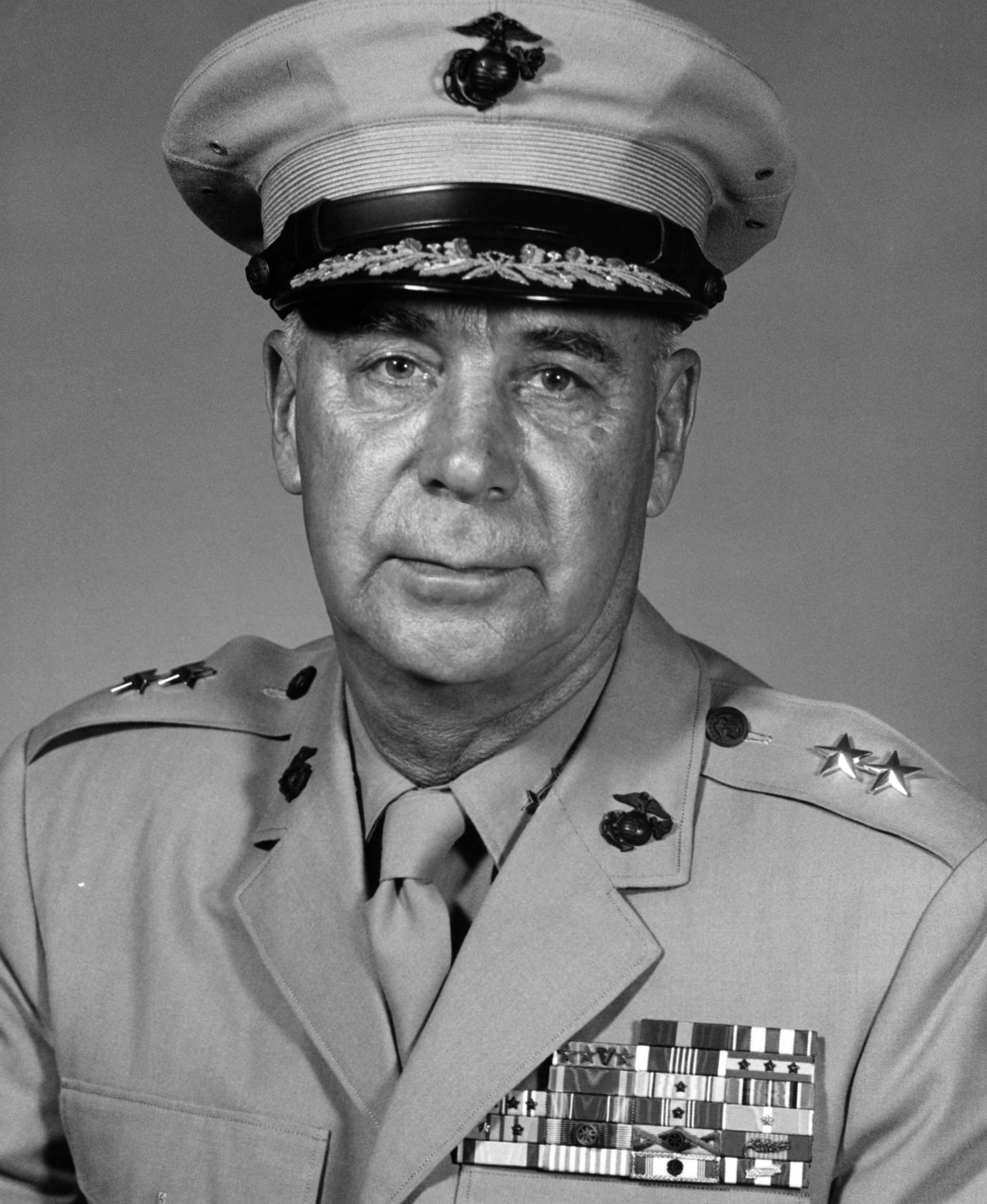 Carl Albert Youngdale (June 23, 1912 - March 8, 1993) was a highly decorated officer of the United States Marine Corps with the rank of Major General. As an artillery officer, he took part in the three major conflicts of 20th Century and completed his 36 years career as Commanding general of Camp Lejeune.